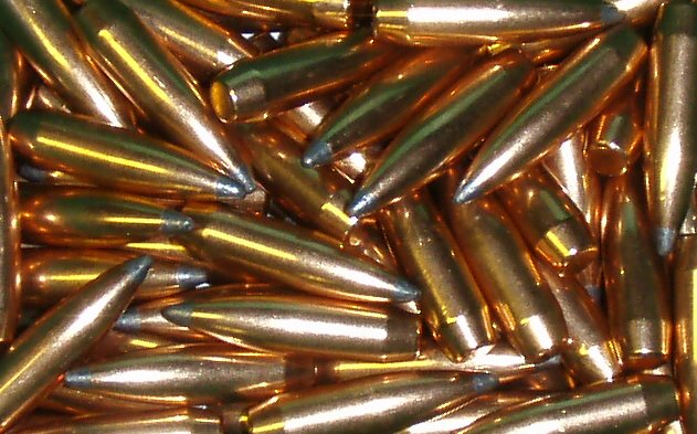 Bullets for handloading - Sierra brand in .270 Winchester caliber